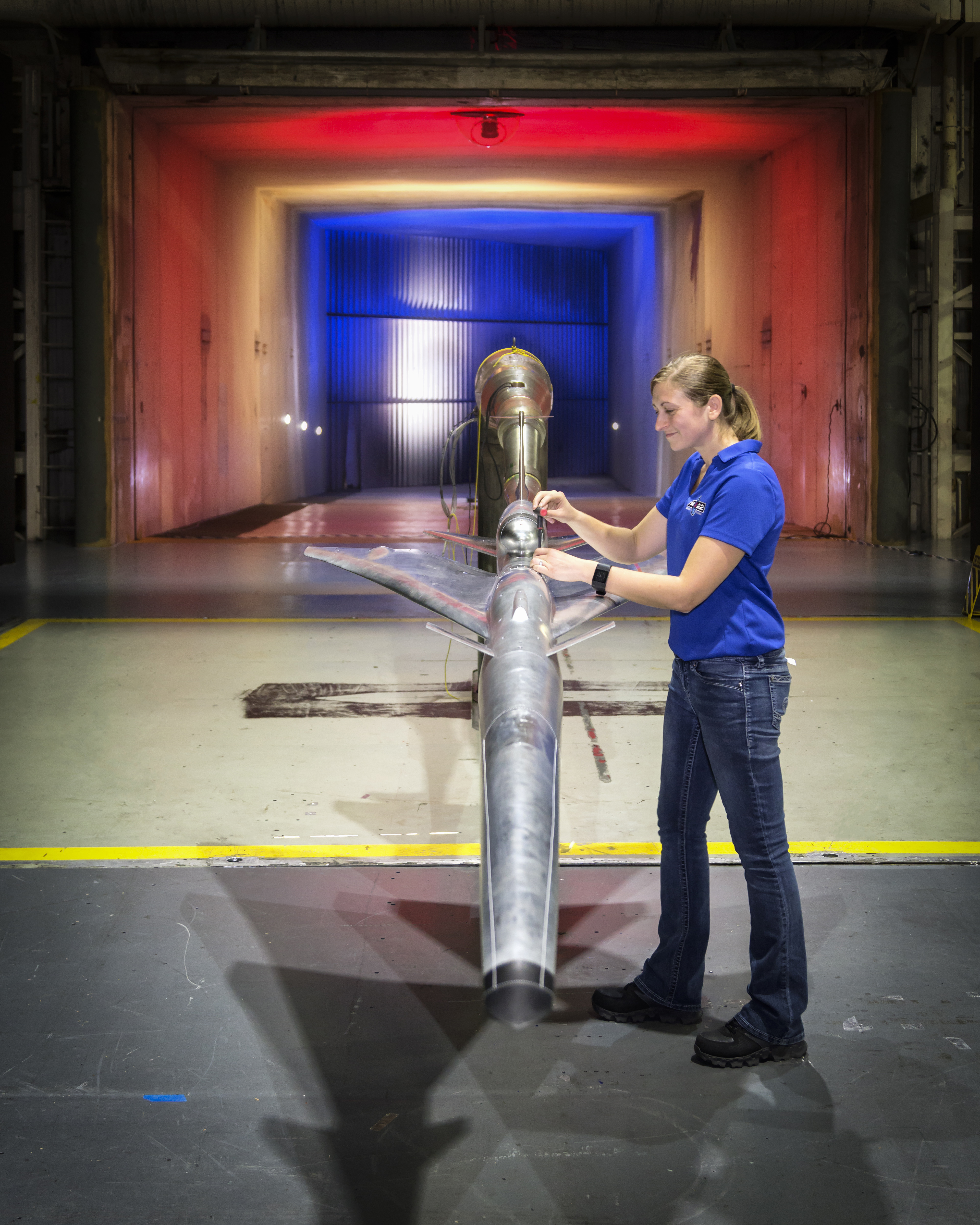 Samantha O’Flaherty, Test Engineer for Jacobs Technology Inc., finalizes the set-up of the Quiet Supersonic Technology (QueSST) Preliminary Design Model inside the 14- by- 22 Foot Subsonic Tunnel at NASA Langley Research Center. Over the next several weeks, engineers will conduct aerodynamic tests on the 15% scale model and the data collected from the wind tunnel test will be used to predict how the vehicle will perform and fly in low-speed flight. The QueSST Preliminary Design is the initial design stage of NASA’s planned Low-Boom Flight Demonstration experimental airplane, otherwise known as an X-plane. This future X-plane is one of a series of X-planes envisioned in NASA’s New Aviation Horizons initiative, which aims to reduce fuel use, emissions and noise through innovations in aircraft design that depart from the conventional tube-and-wing aircraft shape.